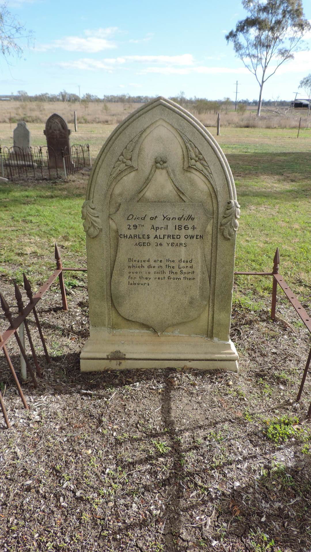 Charles Alfred Owen, headstone, All Saints Anglican Church, Yandilla, 2015